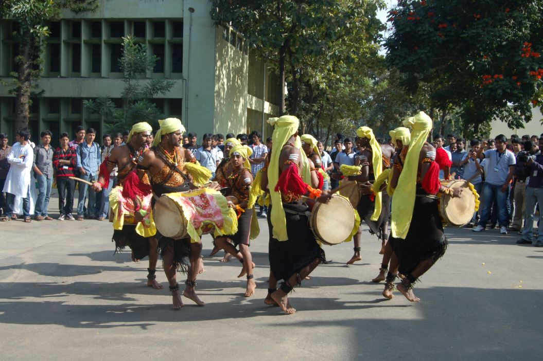 this is a cultural street dance dance during Kannada fest in RV college of engineering, Bengaluru